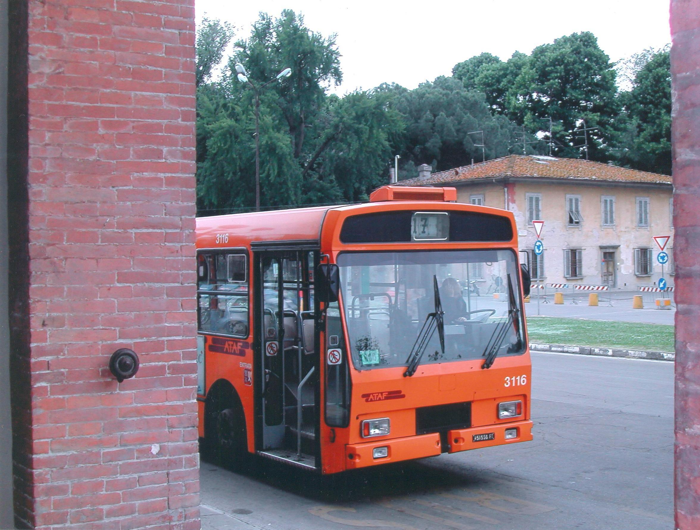 This is a bus of the Firenze public transport society, Ataf. The photo was shot in piazzale delle cascine, Firenze on 31st, may, 2004, 19:45. In the square there is the terminus of the bus line n° 17, branch C. The bus is a Menarini Monocar M201LU (#3116), produced by BredaMenarini between 1979 and 1989.